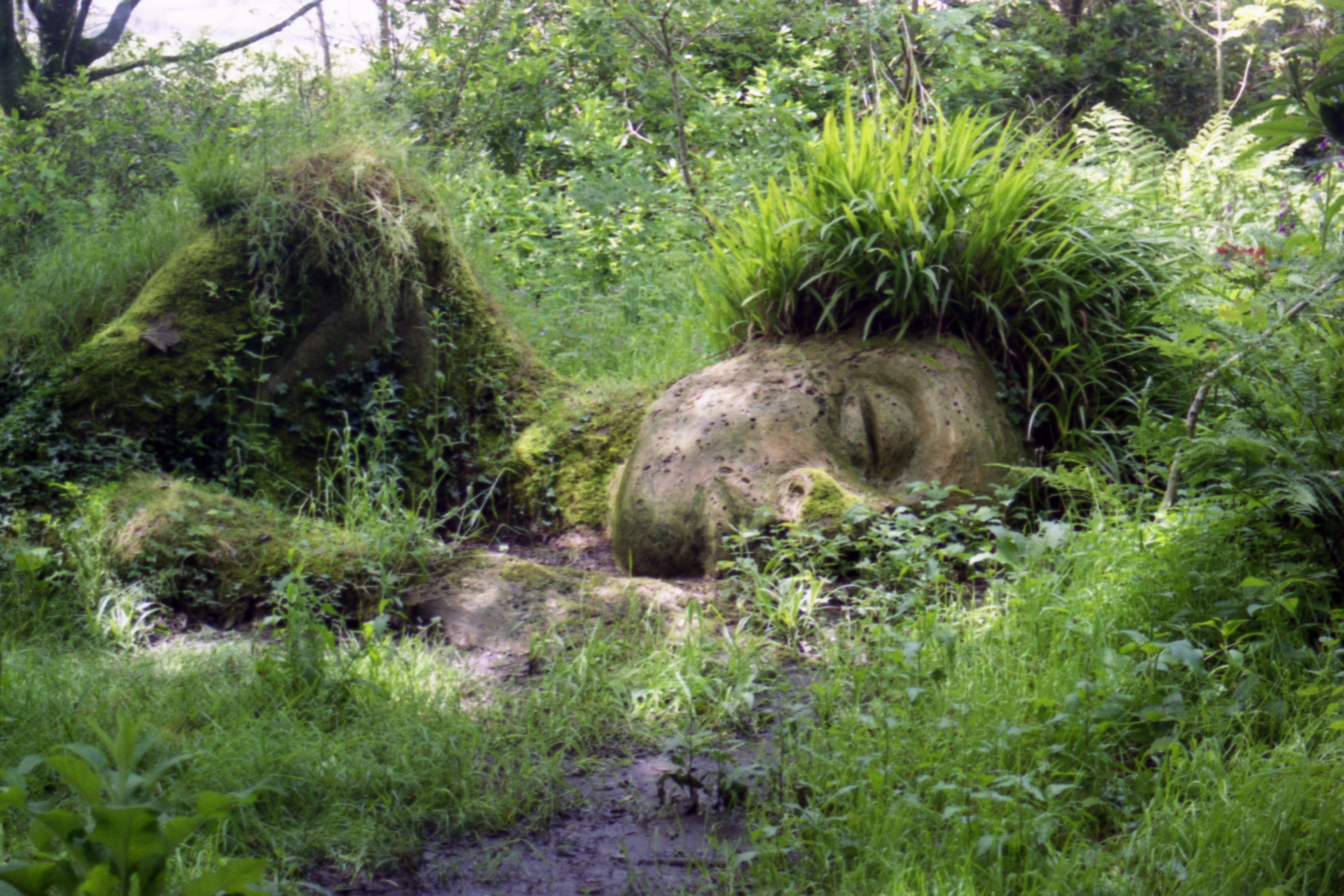 Susan Hill's sculpture "The Mud Maid" in the Lost Gardens of Heligan. Scan of colour negative, details not noted.